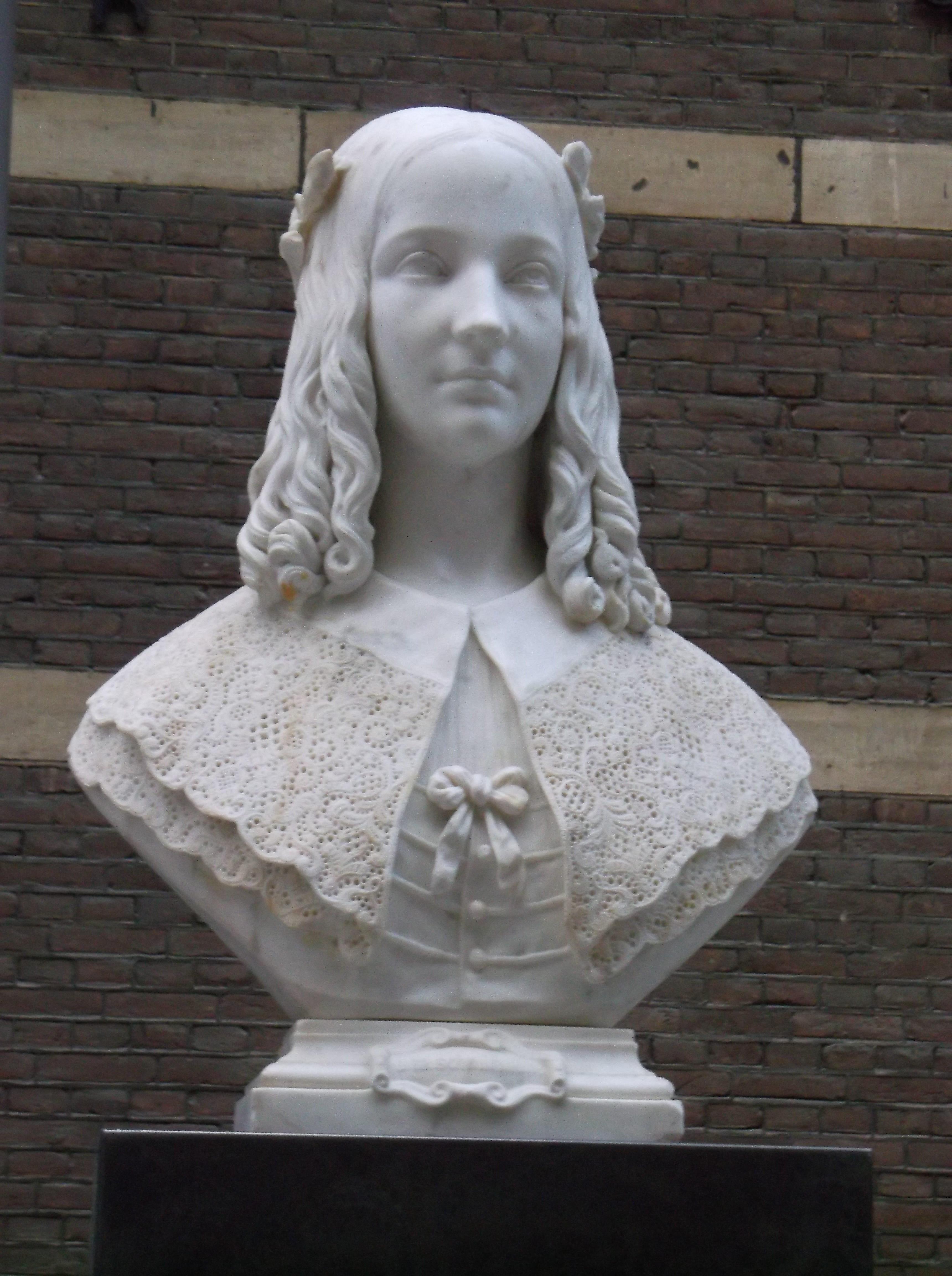 Buste in the Statenpassage in the building of the Dutch lower house.